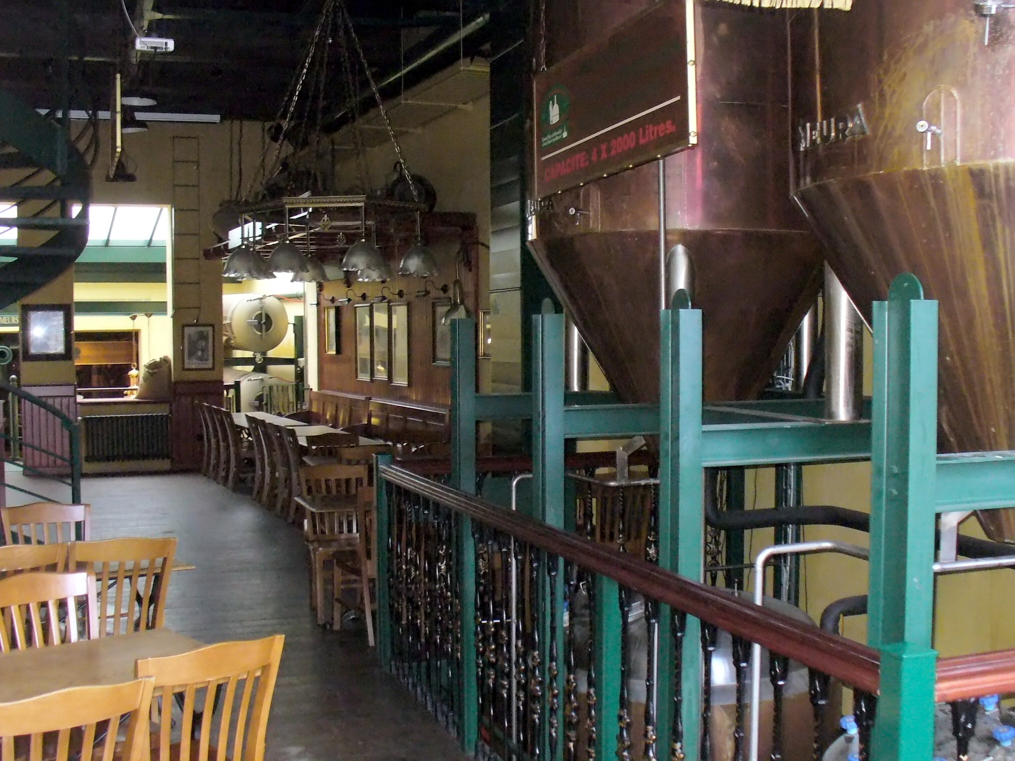 Grand Place brewpub in Brussels.